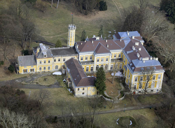 Füzérradvány, palace, Hungary, aerial photography